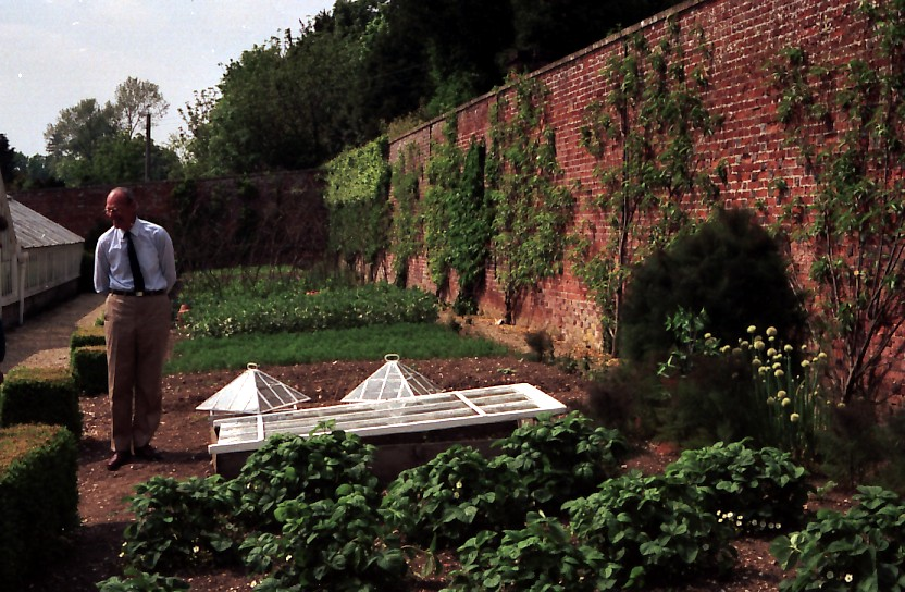 Harry Dodson in the Victorian Kitchen Garden The Presenter of the TV Program The Victorian Kitchen Garden